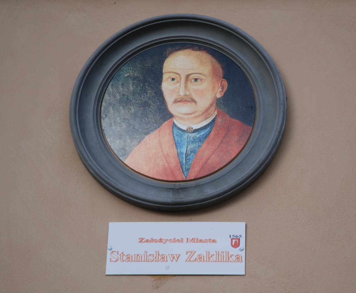 Portrait of Stanislaus Zaklika, the founder of Zaklików town, on one of buildings in Zaklików.